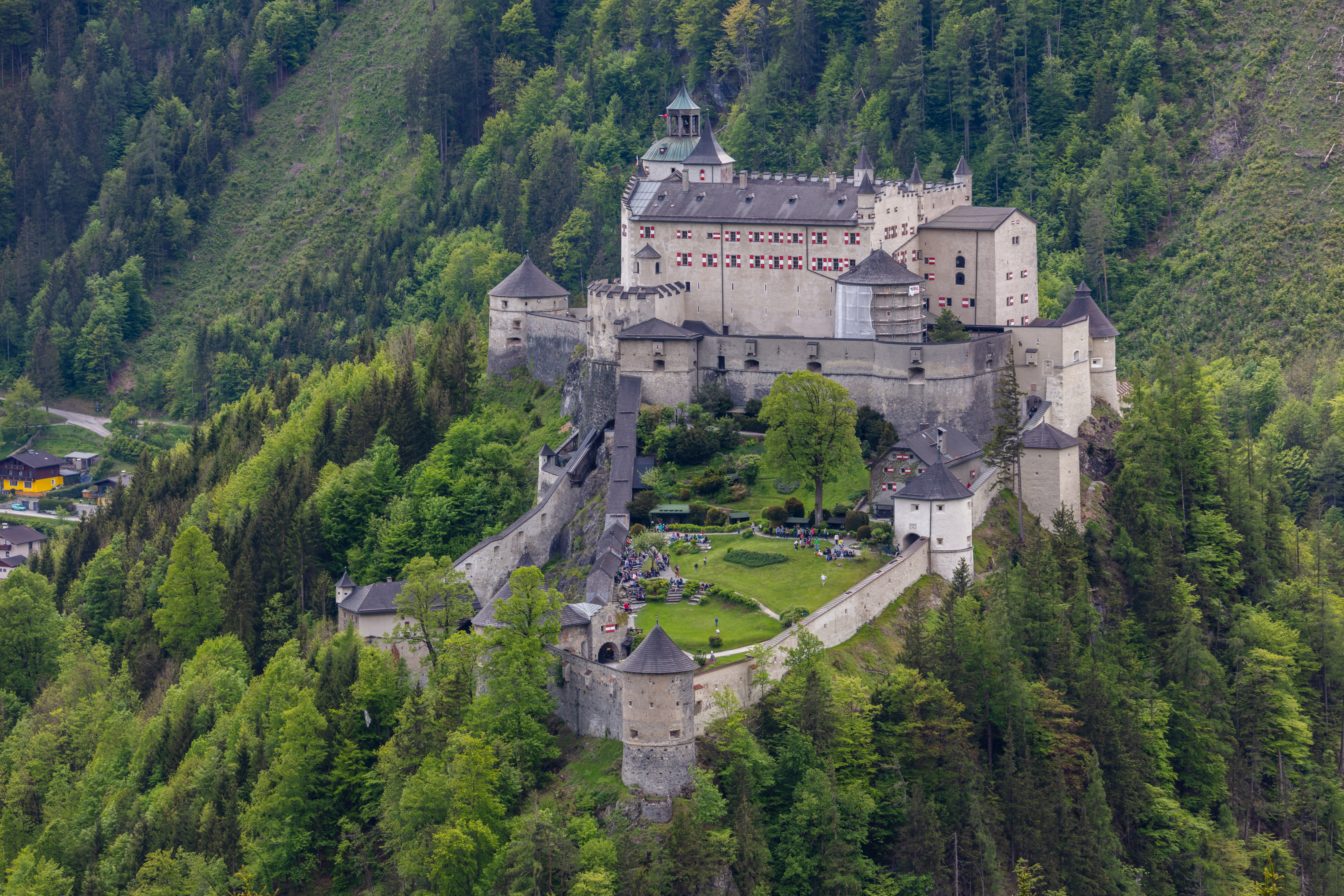 Castle Hohenwerfen, Werfen, Austria